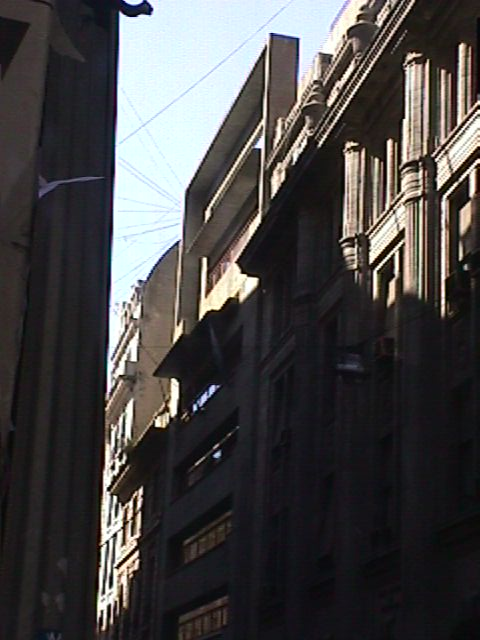 Annex of the former National Development Bank (BaNaDe), designed by Clorindo Testa and built in 1979.